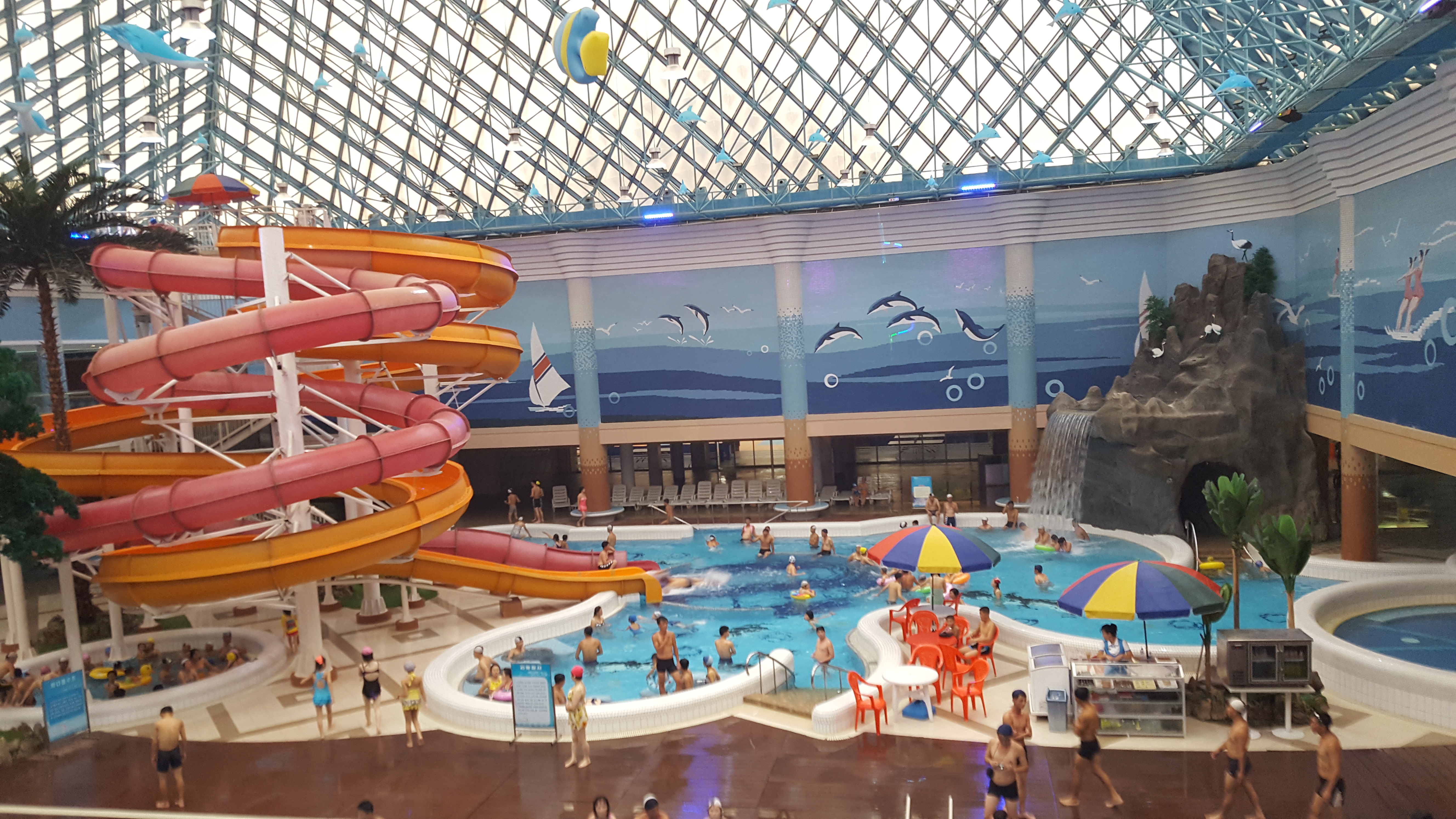 Swimming pools in Munsu Water Park